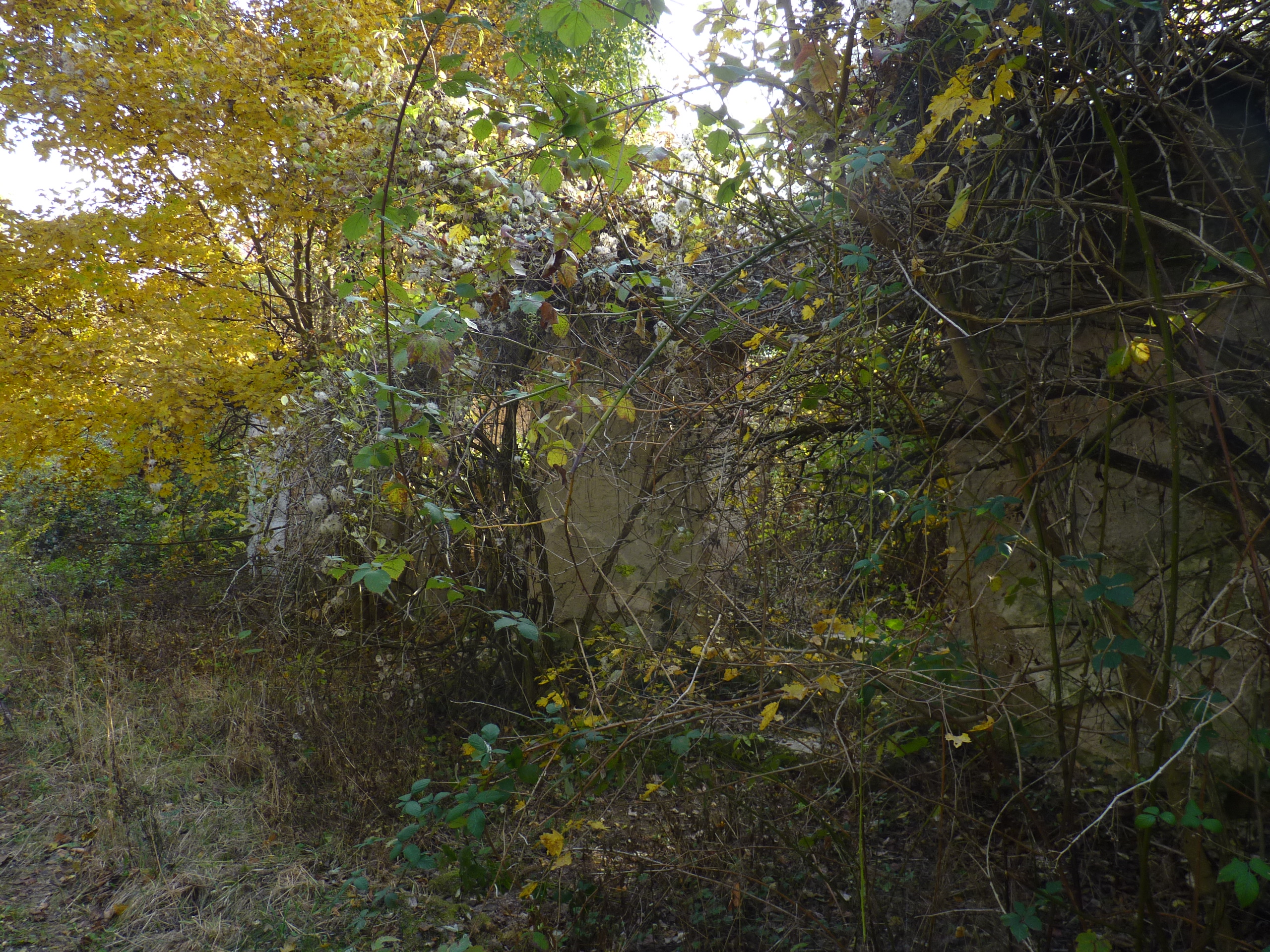 Ruins of Zsíros Hill Tourist House